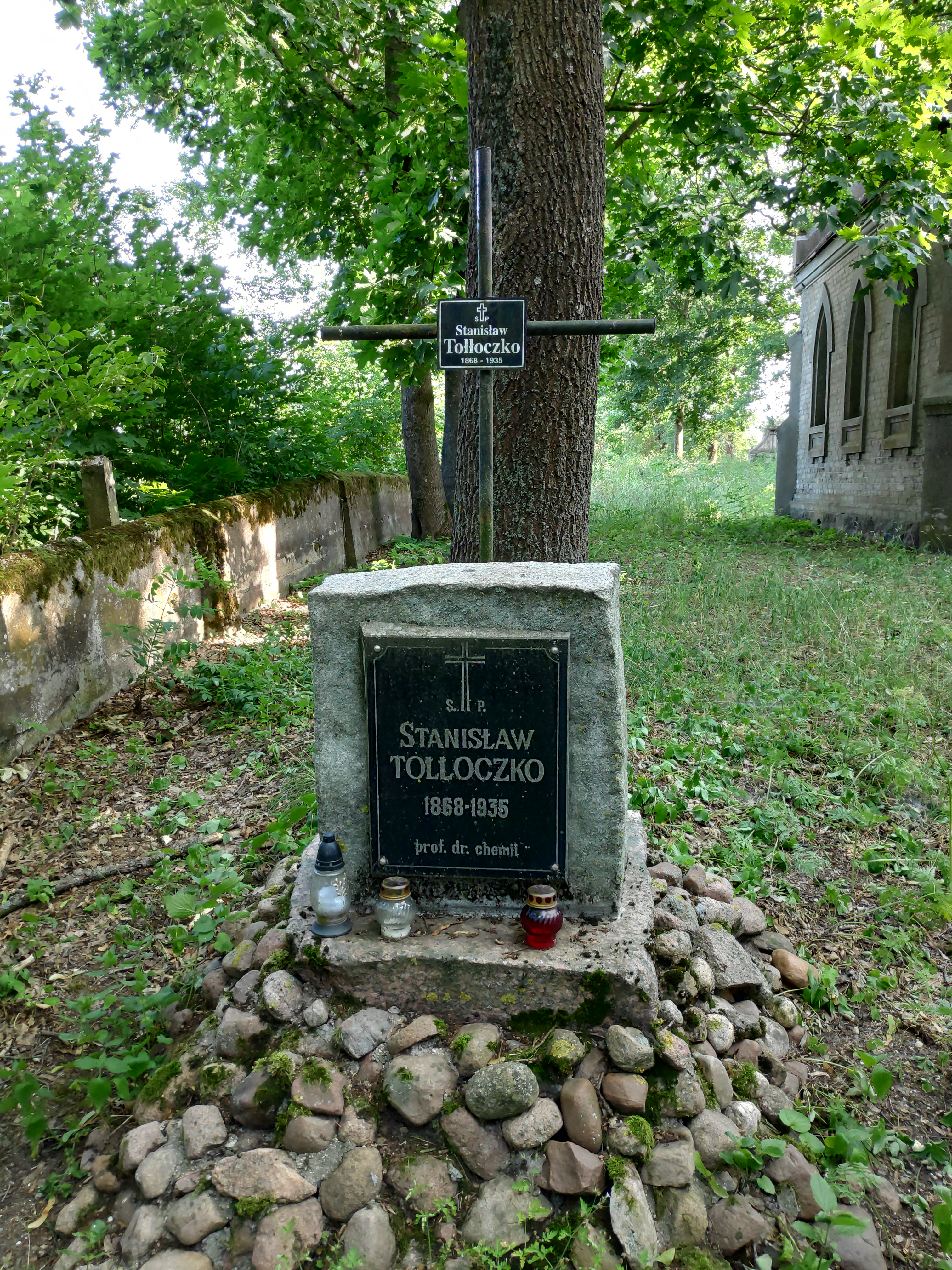 Grave of a Belarusian-Polish scientist, professor of chemistry, recipient of the Order of Polonia Restituta. Located in Malaya Rakovitsa, Brest region, Belarus.